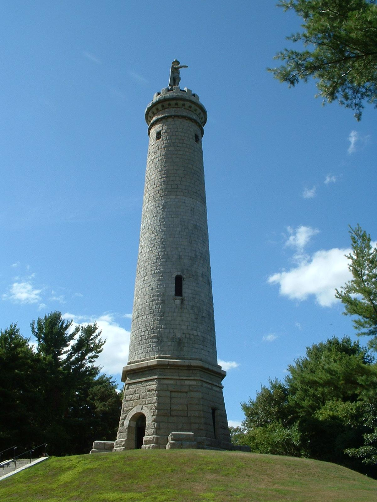 Myles Standish Monument, Goose Point, Duxbury, Massachusetts. The statue on the top of the stone tower, making the same pose as Standish's depiction on the Duxbury town seal, is pointing towards England.